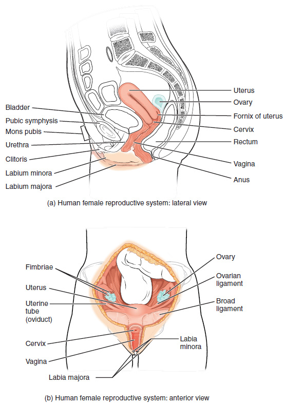 Illustration from Anatomy & Physiology, Connexions Web site. Jun 19, 2013.